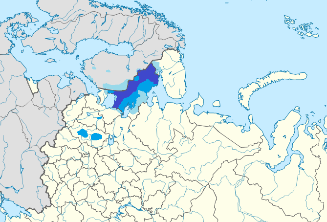 Accurate map of karelian